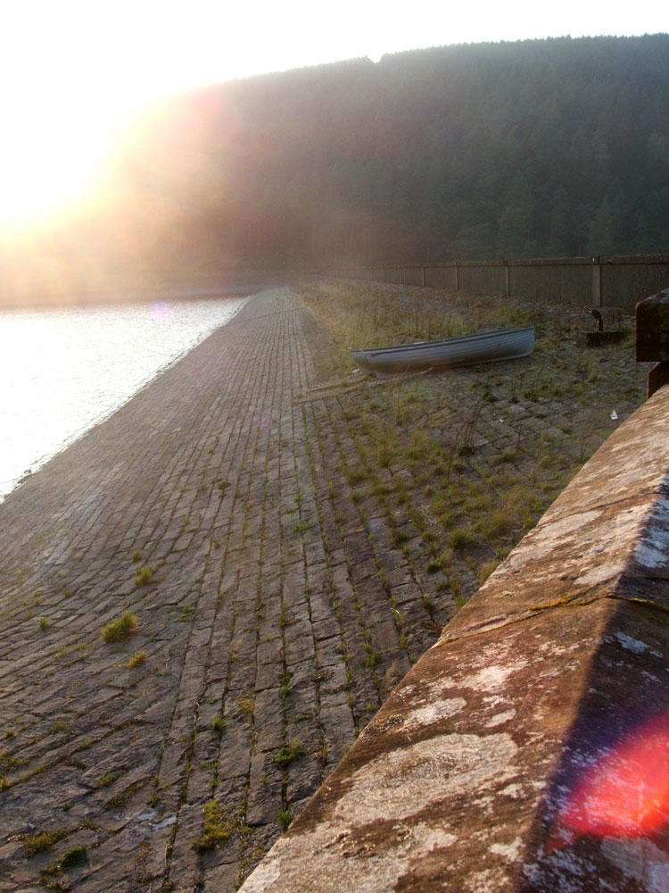 Talla Reservoir, near Tweedsmuir.